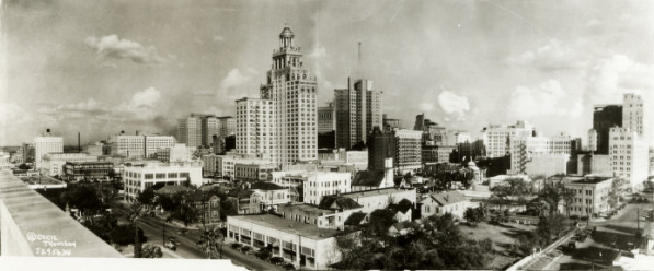 A view of the downtown Houston skyline looking northeast from a point near Louisiana Street and Lamar Avenue. The Esperson Building is the tallest building seen in the photograph.